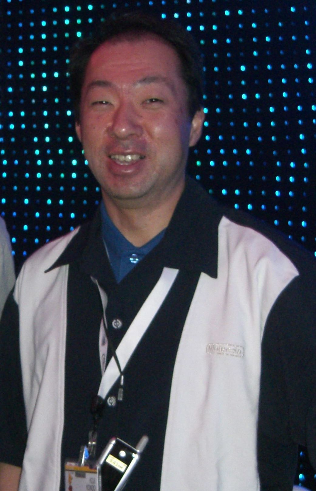 Cropped version of [1].